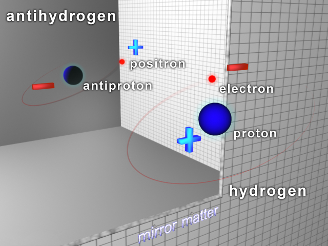 Unlike normal matter, antimatter is constructed of antiquarks, antiprotons, antiatoms... Scientists believe that every element we know has an opposite element. For example antihydrogen.